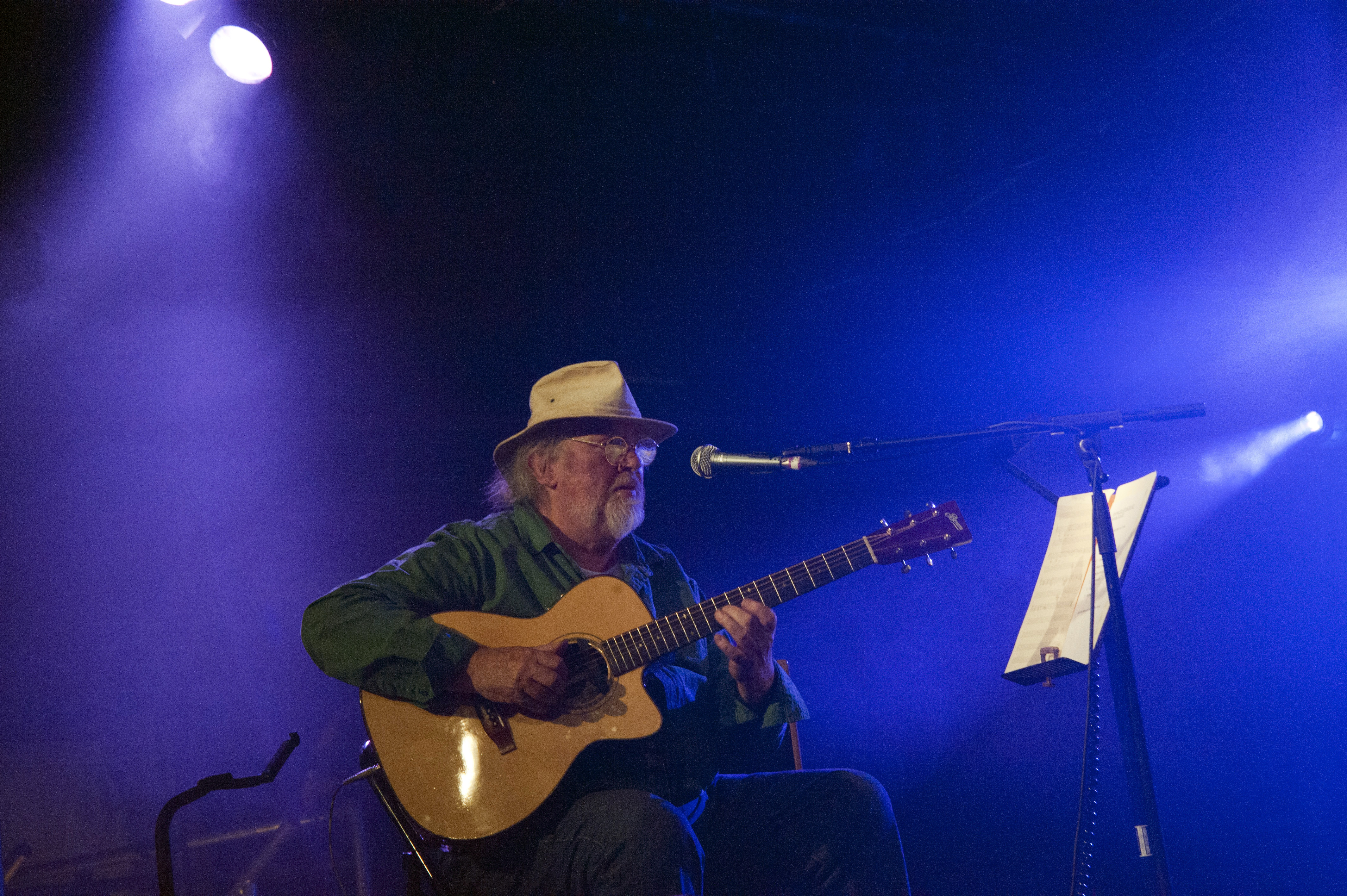 Cambridge Festivals 2001-2014